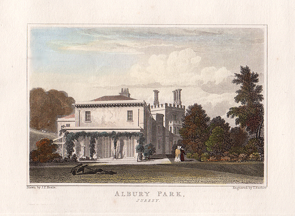 Engraved portrait, later hand coloured, of Albury Park, Surrey, England.